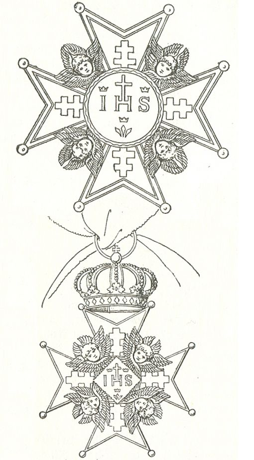 Drawing of the Order of the Seraphim Sweden drawn 1893